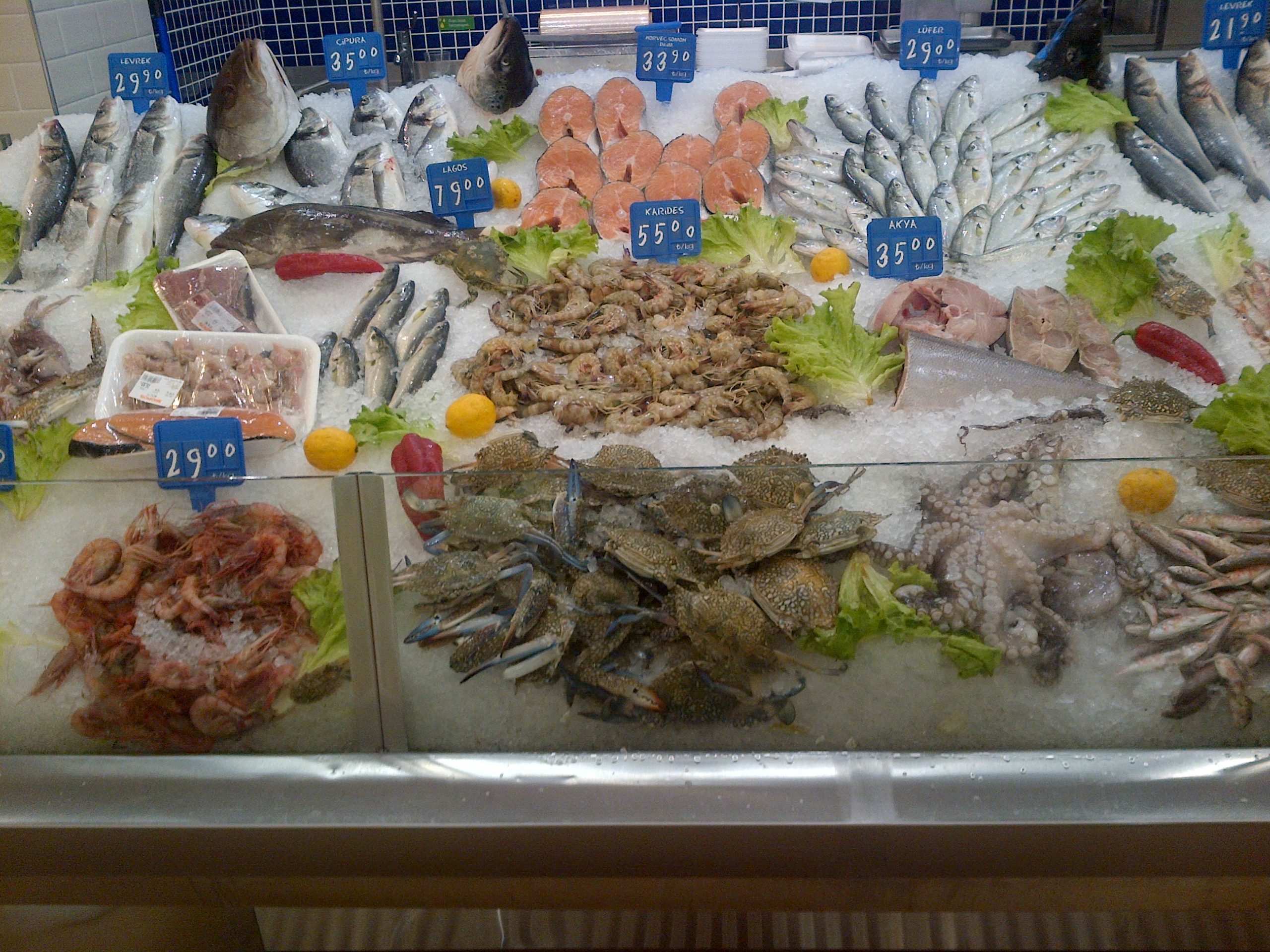 Fish and seafood at a supermarket in Ankara.